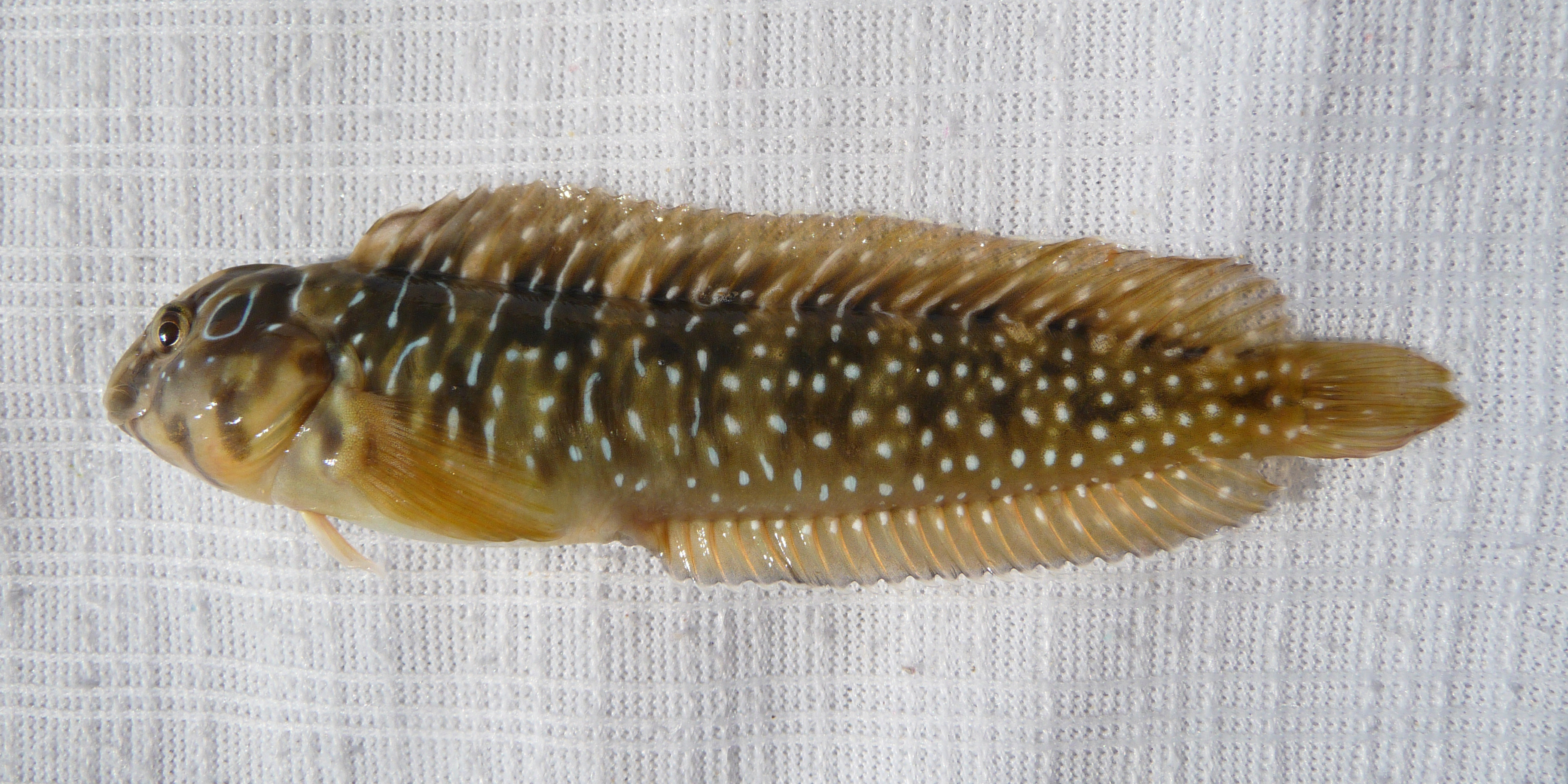 Salaria pavo (Risso, 1810). Peacock blenny female. This funny predatory fish was caught in the Black sea. Wet matter was used as a background to prevent damage to its skin. After very short photosession the fish was released back to the sea. This fish is able to change colour, like a chameleon. Geogoding of the location at which it was caught and photographed are the same.